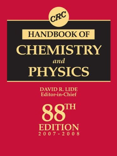 CRC Handbook of Chemistry and Physics, 88th Edition (Title)